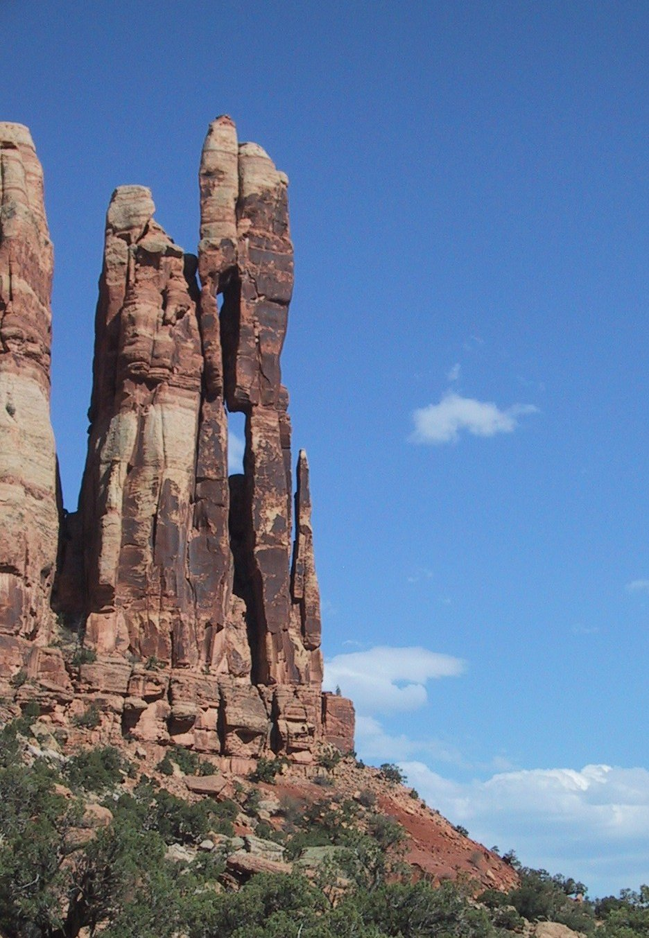 Source: This photograph was taken by myself, Bill Duncan.